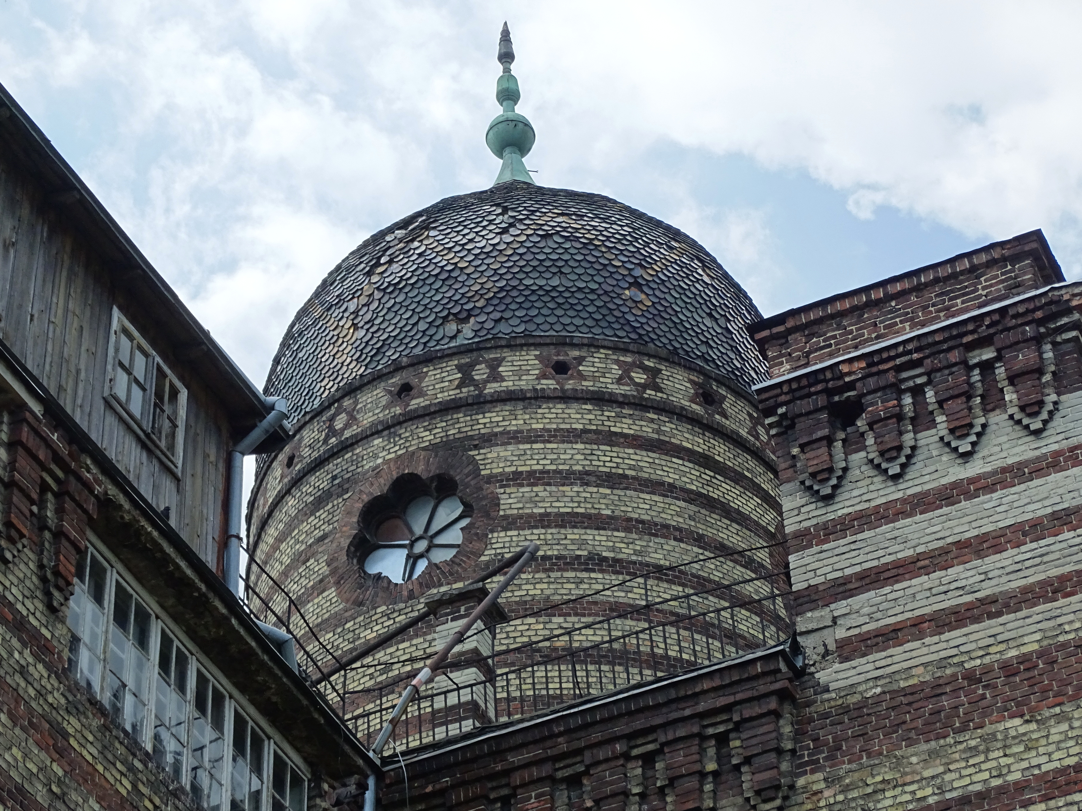 Facade of Old Jewish Hospital with Stars of David - Lviv - Ukraine - 01